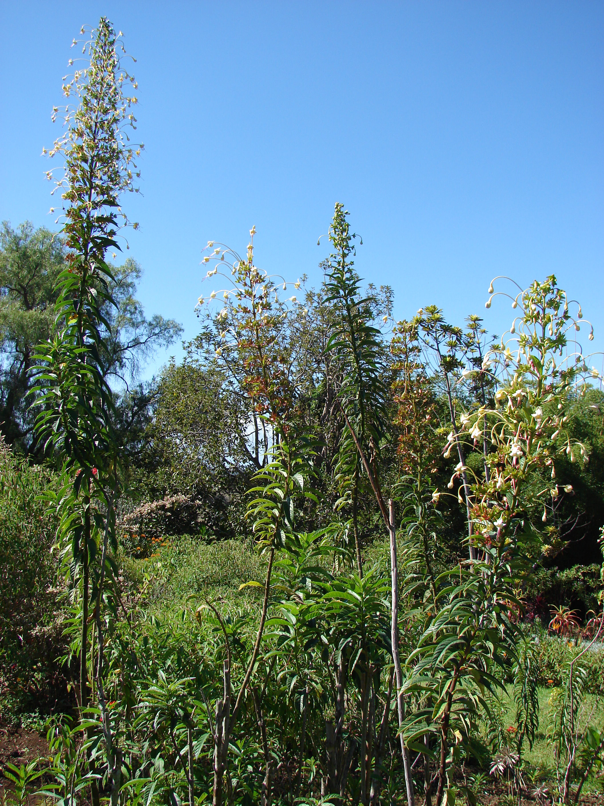 Clerodendrum indicum (flowering habit). Location: Maui, Enchanting Floral Gardens of Kula